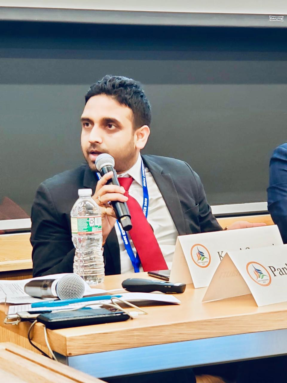 Kunal speaking at the panel - Harvard University India Conference 2019